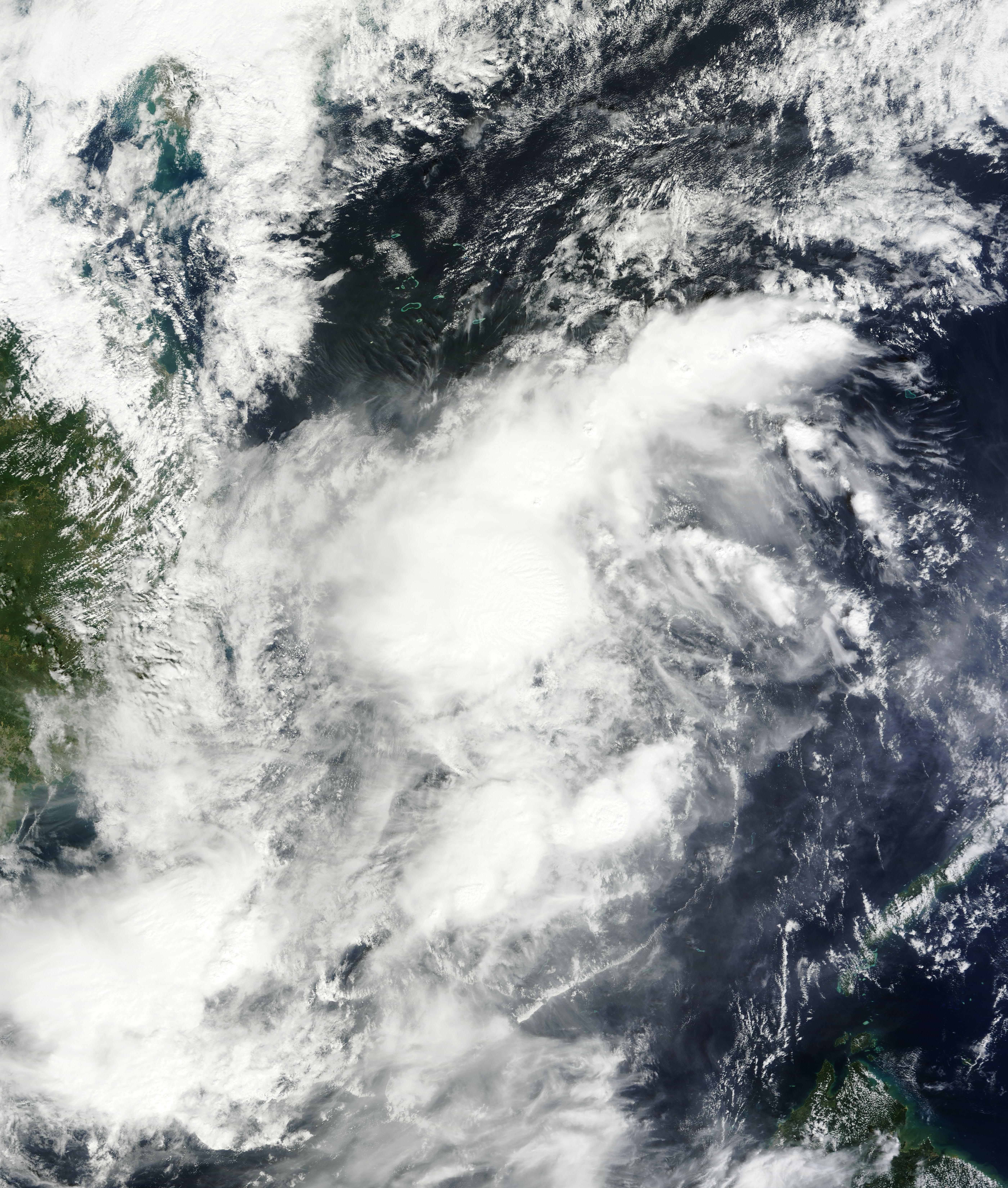 JMA Tropical Depression (Zoraida) over Vietnam on November 14,2013